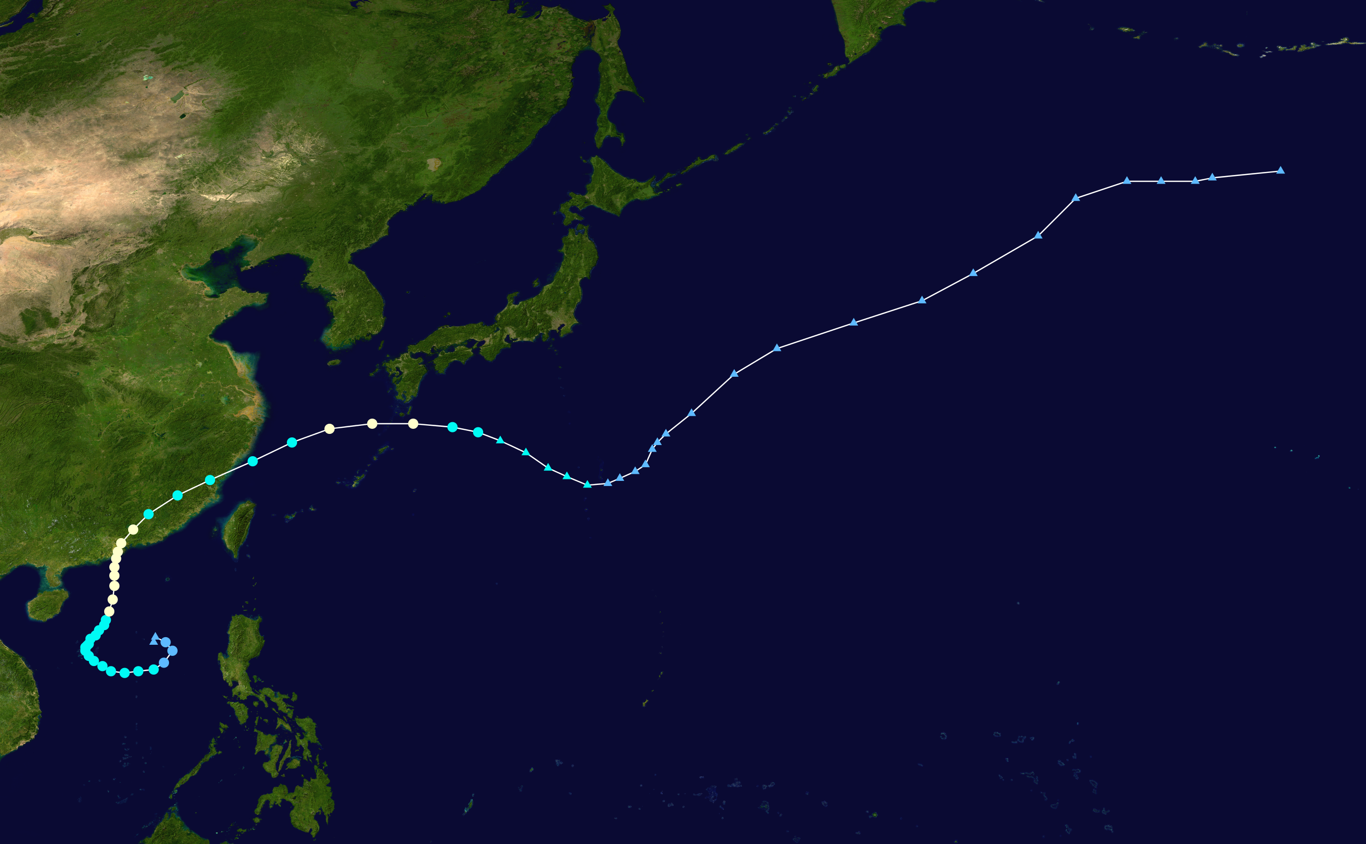 Track map of Typhoon Mary of the 1960 Pacific typhoon season. The points show the location of the storm at 6-hour intervals. The colour represents the storm's maximum sustained wind speeds as classified in the Saffir–Simpson hurricane wind scale (see below), and the shape of the data points represent the nature of the storm, according to the legend below. Saffir–Simpson hurricane wind scale Tropical depression≤38 mph≤62 km/h Category 3111–129 mph178–208 km/h Tropical storm39–73 mph63–118 km/h Category 4130–156 mph209–251 km/h Category 174–95 mph119–153 km/h Category 5≥157 mph≥252 km/h Category 296–110 mph154–177 km/h Unknown Storm typeTropical cycloneSubtropical cycloneExtratropical cyclone / Remnant low / Tropical disturbance